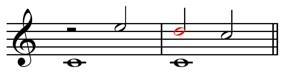 Accented passing tone.